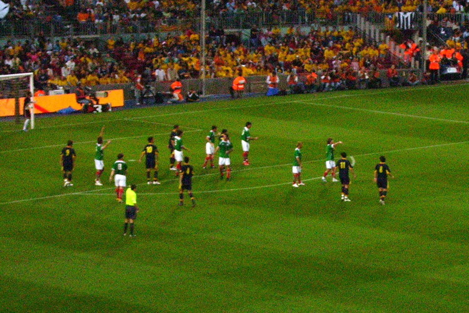 Football match, that took place on Camp Nou in Barcelona, on 8th of October 2006 between national teams of Catalonia and Basque Country.